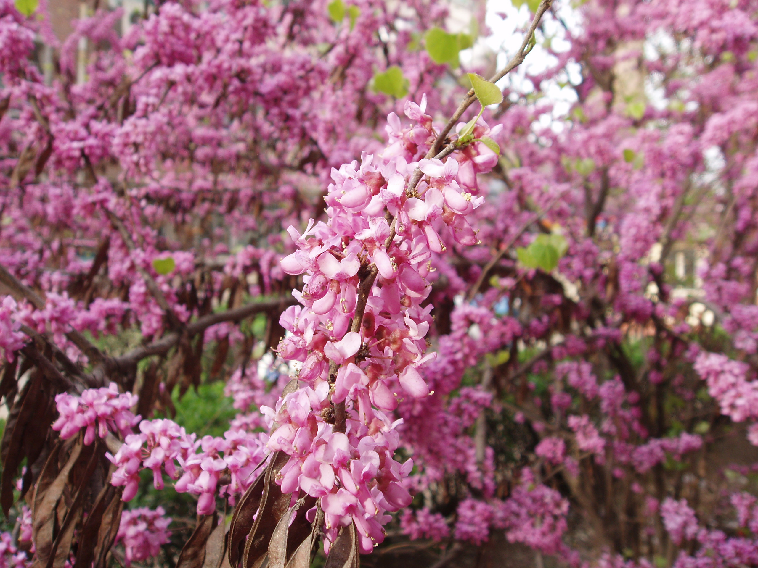 Cercis chinensis flowersCebuano: Cercis chinensis